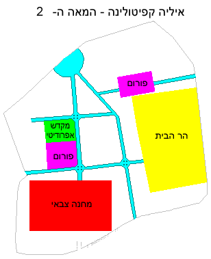 1=Basic schematic map of Jerusalem, as rebuilt by Hadrian (a reconstruction known as Aelia Capitolina), showing the two main north-south roads (Cardo Maximus and Cardo Minimus), and the two main east-west roads (Decumanus Maximus and Decumanus Minimus) - the northern one is in two halves. It also shows other major landmarks of Roman Jerusalem.